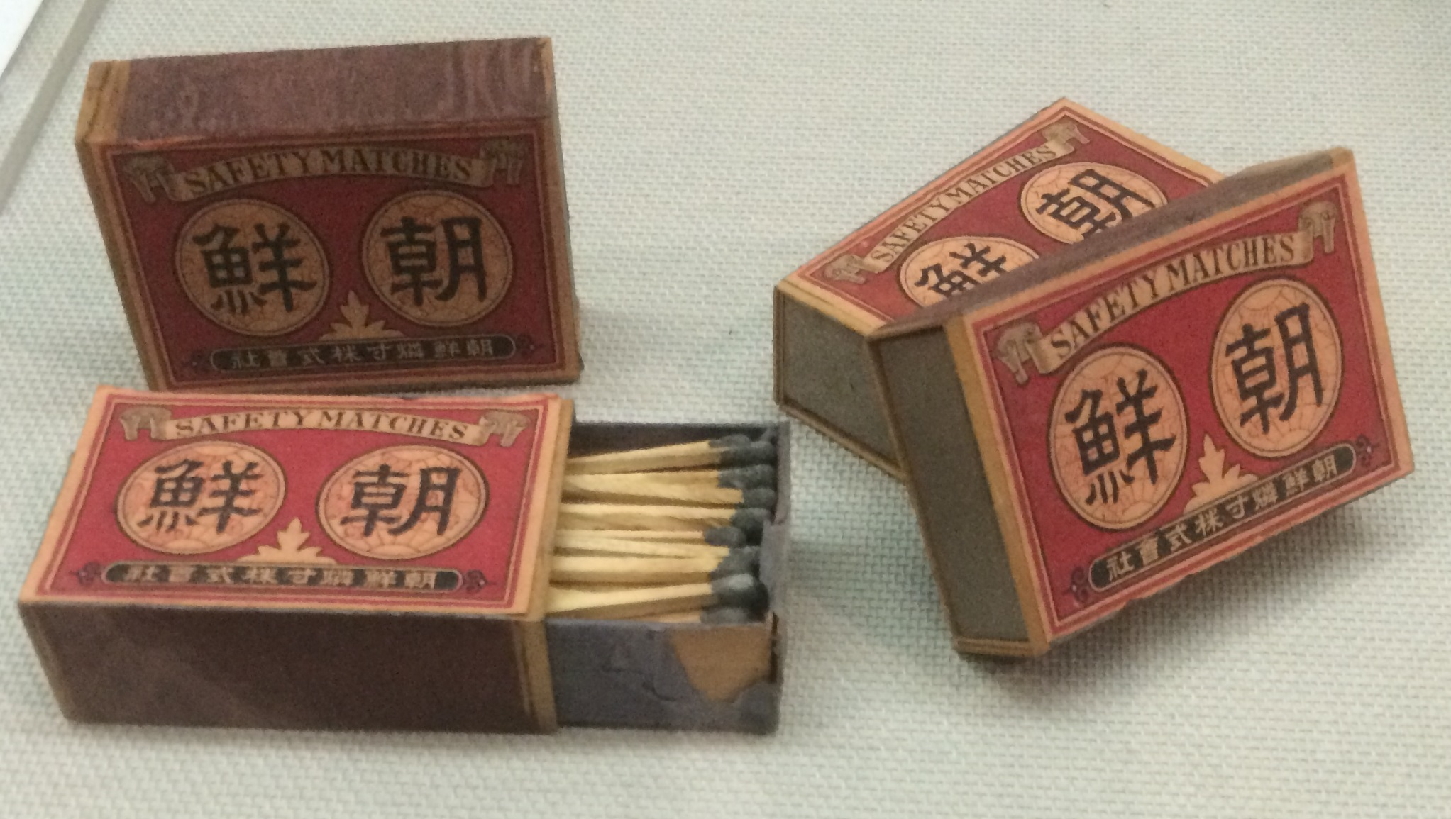 Matches 朝 鮮 made by Joseon Inchon Company ltd at early 20c, exhibited at Incheon Museum